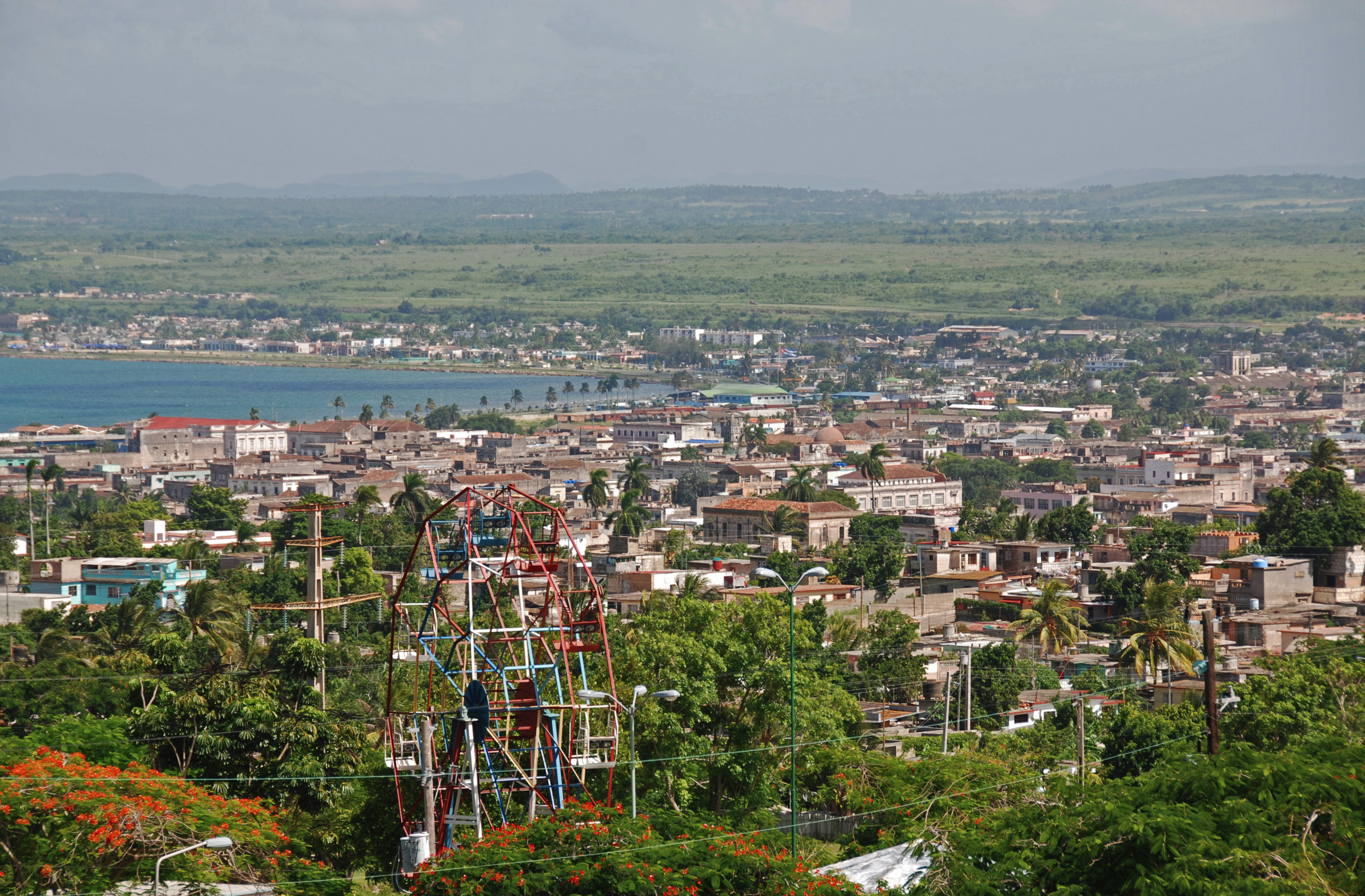 The city and bay of Matanzas, Cuba seen from the Ermita de Monserrate with the Valle de Yumurí in the background.